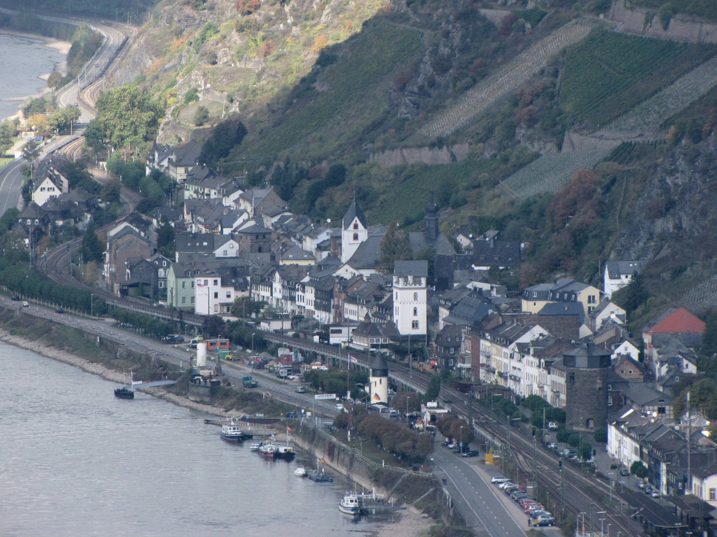 Kaub